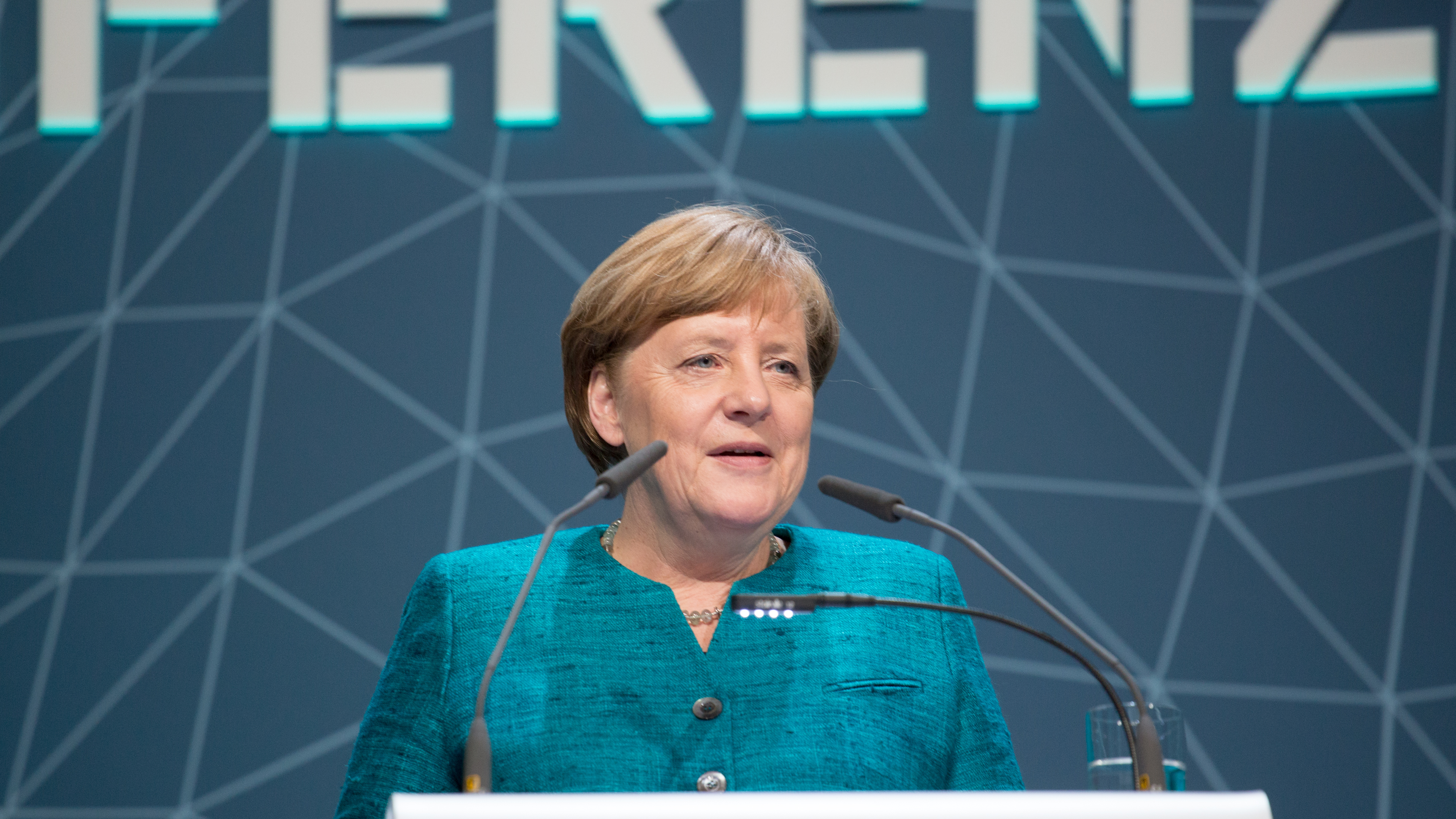 (Photos courtesy of The Federal Ministry of Transport and Digital Infrastructure abbreviated (BMVI) Leaders for sustainable shipping IMO Secretary-General Kitack Lim joined German Chancellor Angela Merkel at Germany’s 10th National Maritime Conference in Hamburg (4 April), which focused on issues including sustainable growth and the importance of new technologies for the future of the shipping industry. Addressing Chancellor Merkel, the Mayor of Hamburg, German Government ministers and other stakeholders in his keynote speech, Mr. Lim emphasized that shipping, supported by IMO’s global regulatory regime, will be central to sustainable global development and growth in the future. He said that Germany provides ample proof that maritime activity can both drive and support a growing national and global economy, and that efforts to promote investment, growth and improvement in the maritime sectors can have benefits that reach far beyond shipping itself. Speaking about digitization in the industry, both leaders emphasized that new technologies will be key to efficiency in the maritime sector and protection of the environment. Mr. Lim said that “with opportunities afforded by new technology, shipping is, potentially, on the brink of a new era”. In her remarks on the marine environment, Chancellor Merkel thanked IMO and the Secretary-General for agreeing a roadmap for the reduction of GHG emissions from ships and welcomed IMO’s work to protect the marine environment from micro plastics in particular.